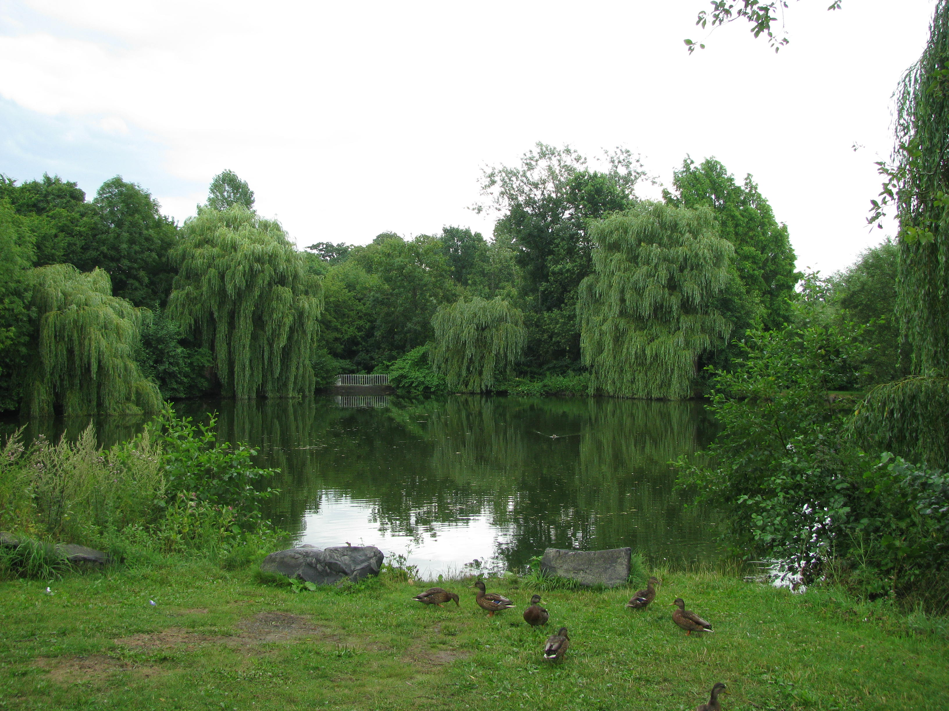 Pond in Park Schönfeld in Kassel, Germany